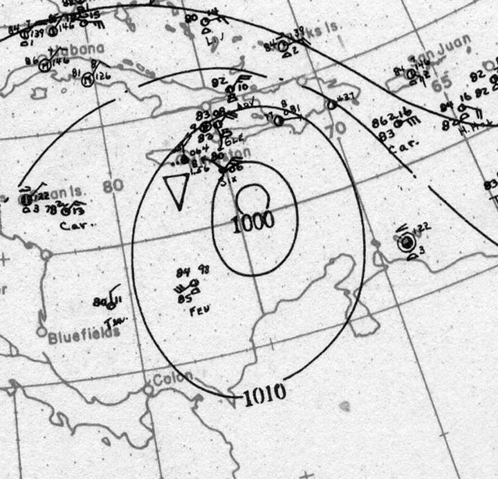 Surface analysis of the sixth hurricane of the 1916 Atlantic hurricane season approaching Jamaica on August 15, 1916.